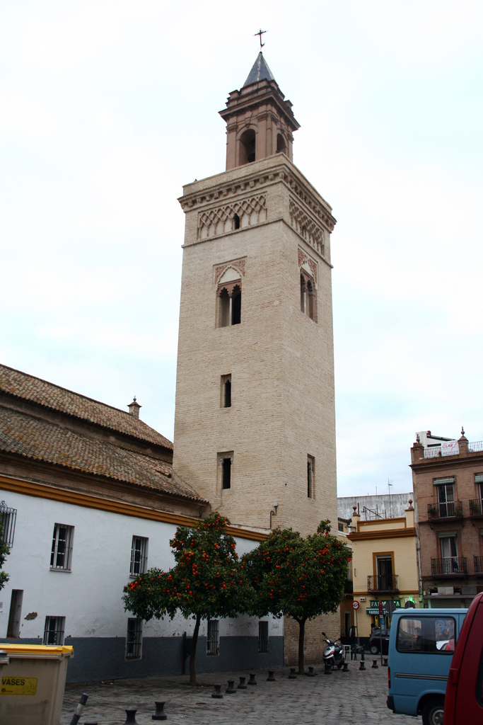 Church of St Mark (Iglesia de San Marcos), Seville. Mudejar style.